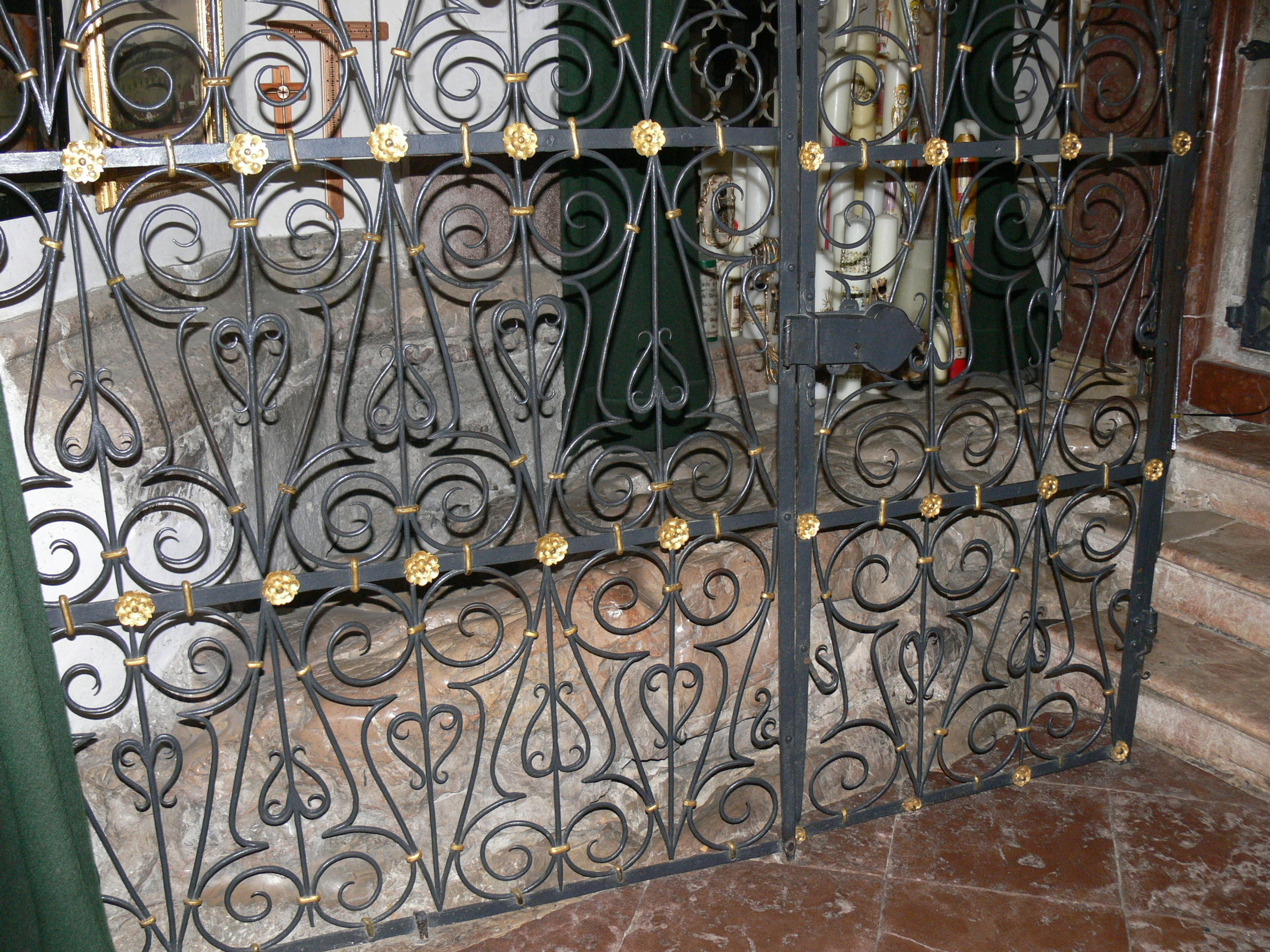 Sankt Wolfgang im Salzkammergut parish church ( Upper Austria ). Saint Wolfgang´s chapel: So called Wolfgang´s stone - probably a pagan ceremonial stone. According to legend, Saint Wolfgang lay down on it and left the impression of his body.